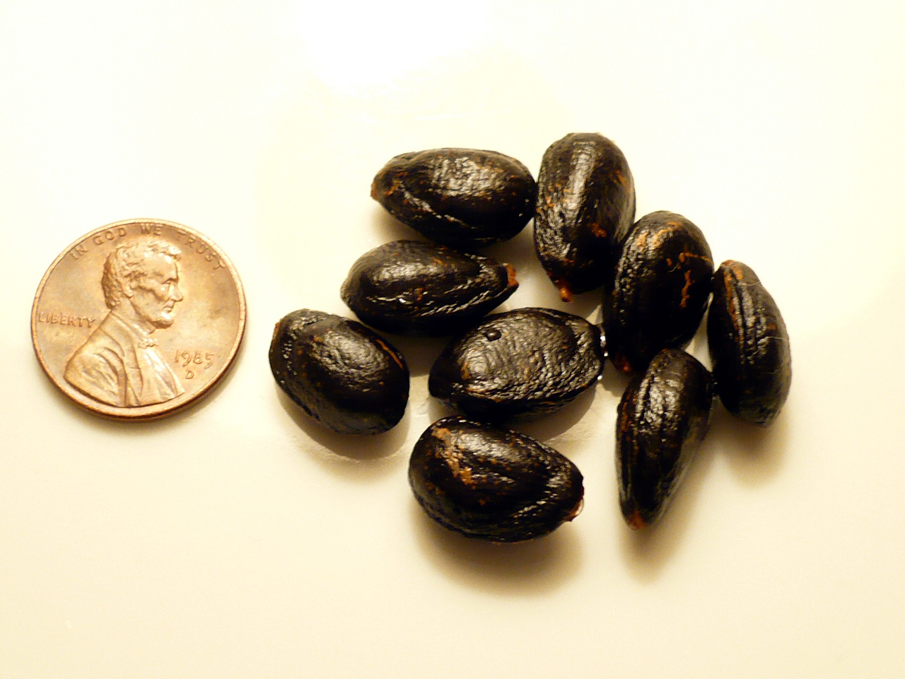 Several seeds from a cherimoya, with a United States penny at left, for comparison. Photo taken in Kent, Ohio with a Panasonic Lumix digital camera (model DMC-LS75).